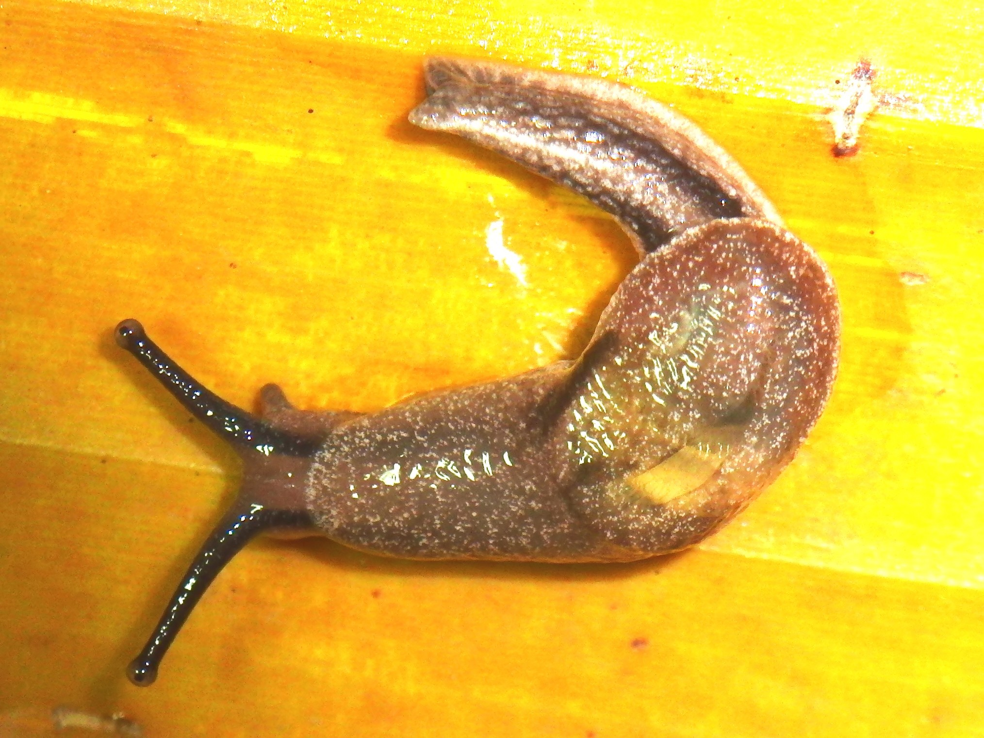 This is a species of Parmarion from Hong Kong. Locality: Hong Kong